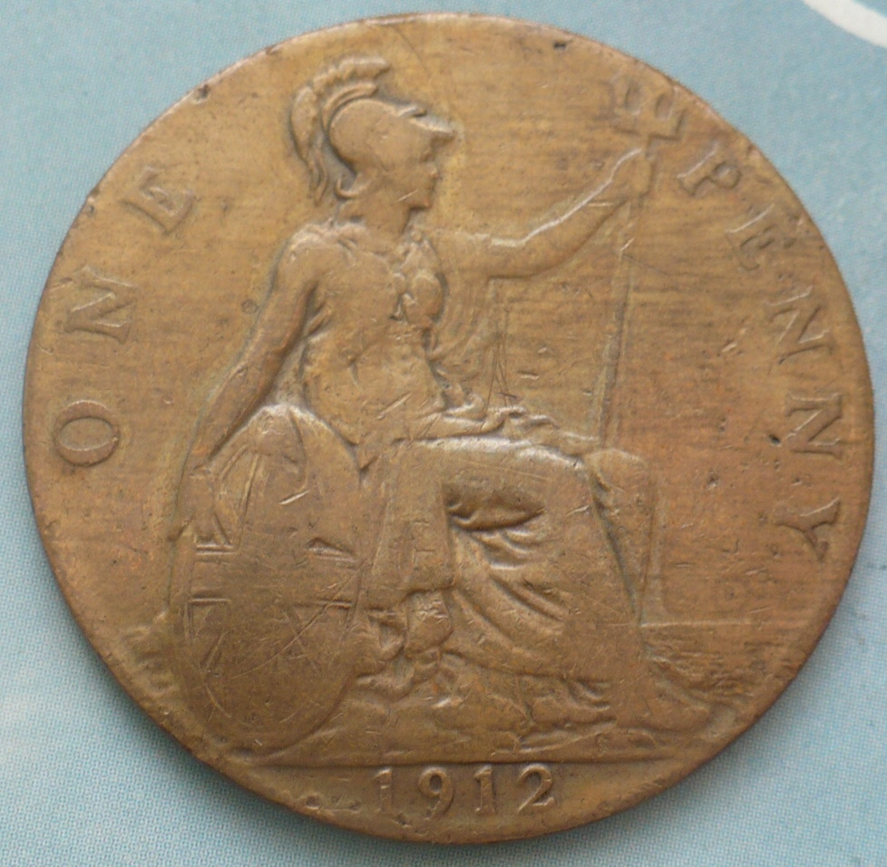 One Penny 1912